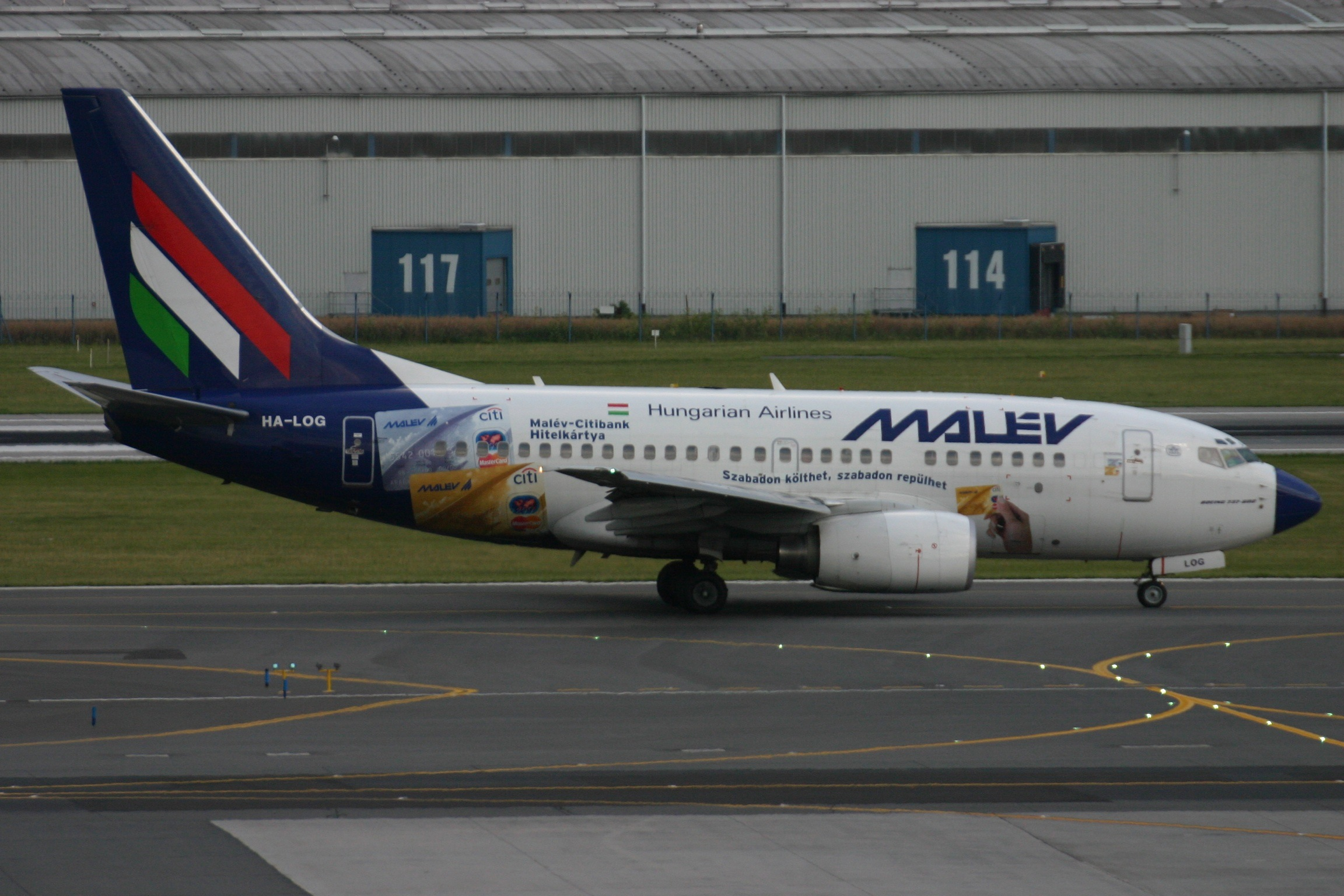 At Prague Ruzyně International Airport